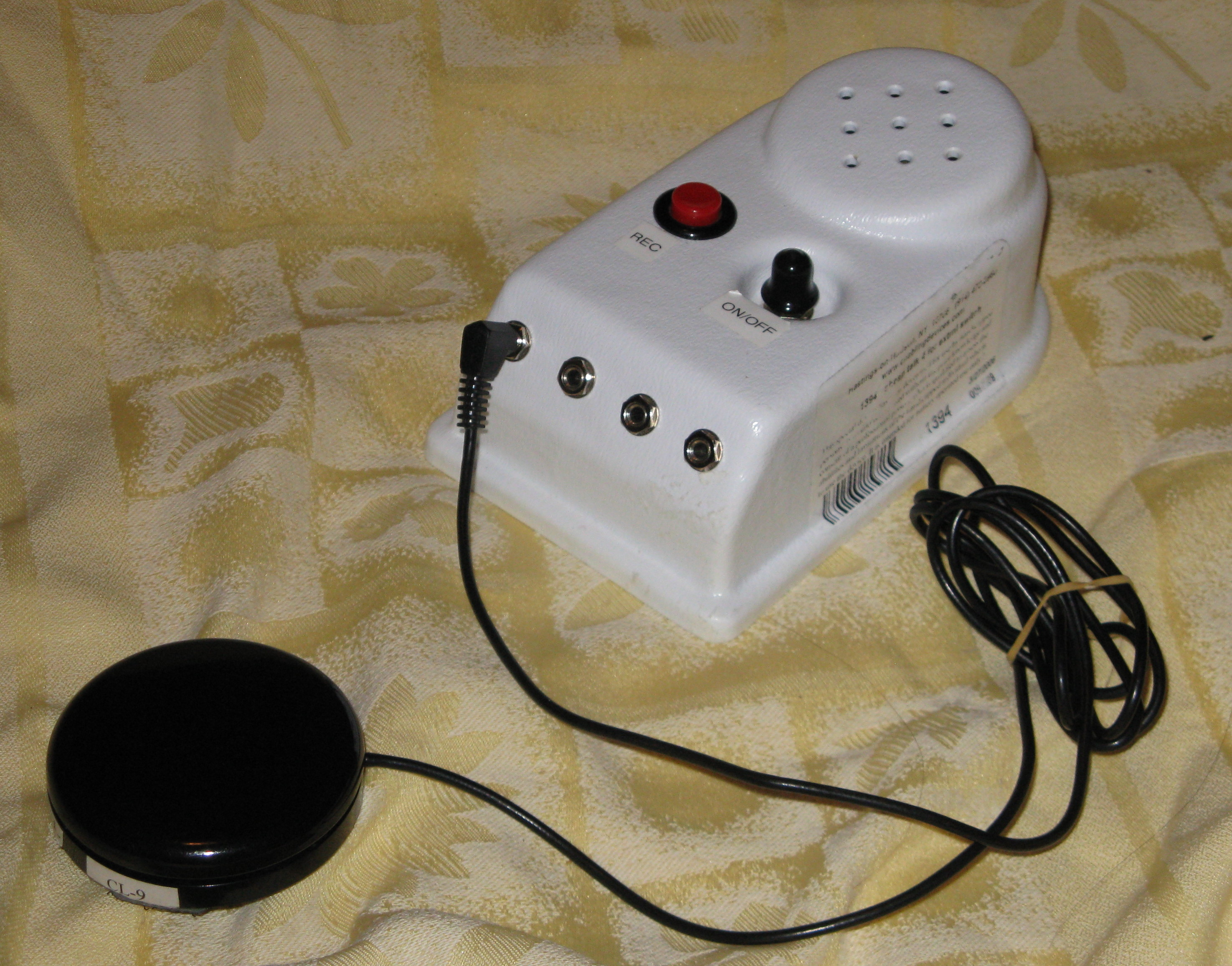 cheaptalk synthesized speech device and switch